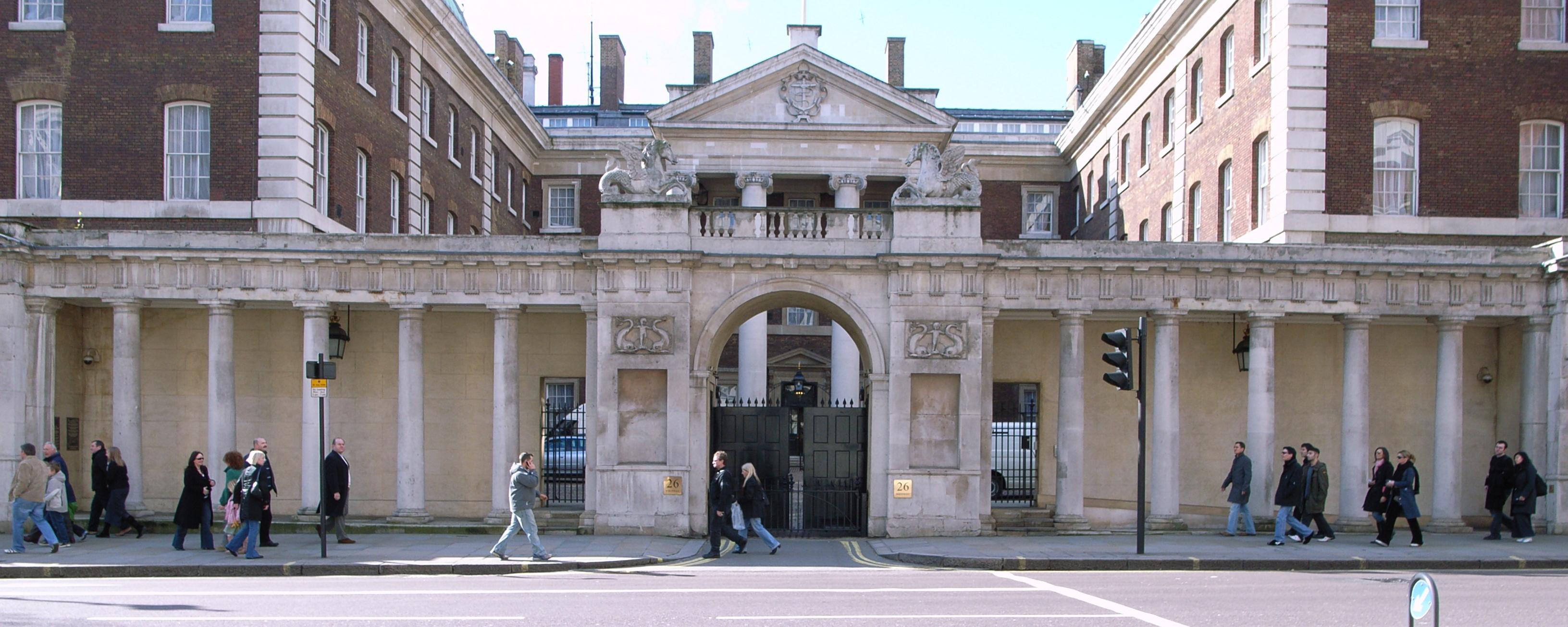 Admiralty Screen (1759-61), Whitehall, London, by Robert Adam